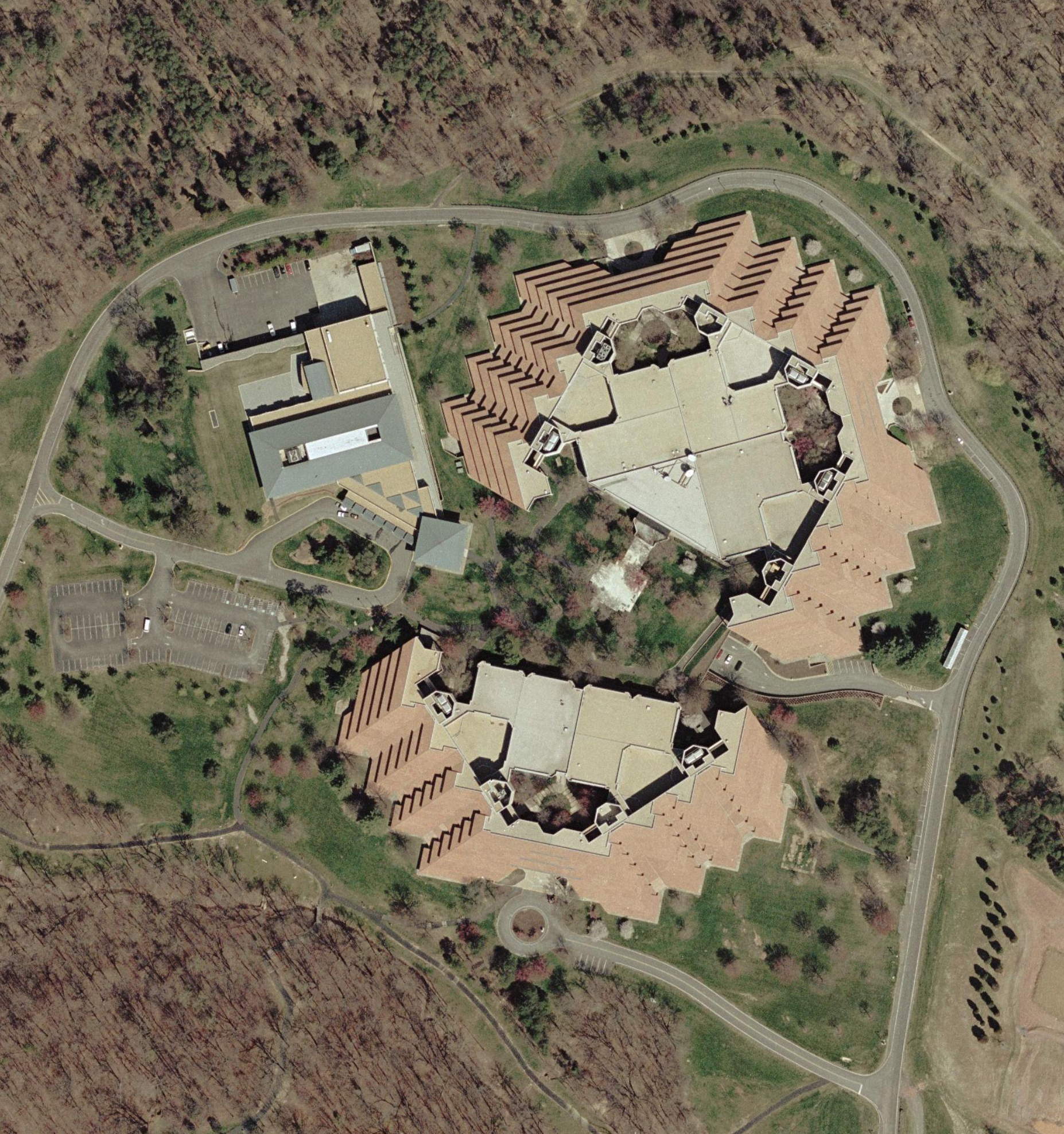 Aerial image of The National Conference Center, a corporate training facility in Leesburg, Virginia, United States.